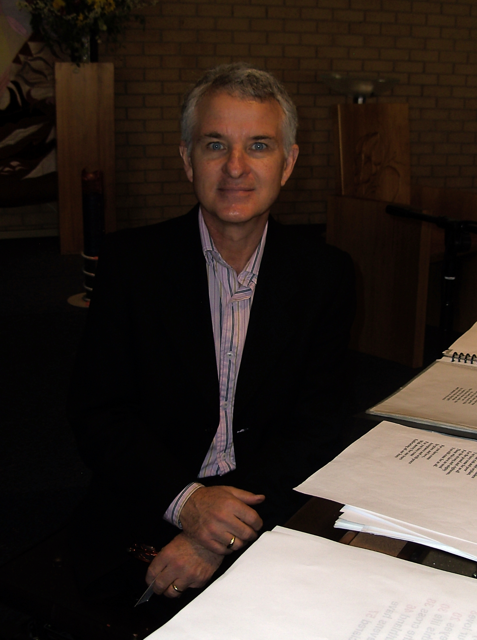 Geoff Bullock performing at Kippax Uniting Church, Canberra, Australian Capital Territory.